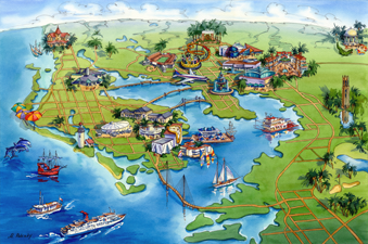 Example of an aerial view map illustrated in contemporary illustrative technique by Maria Rabinky.